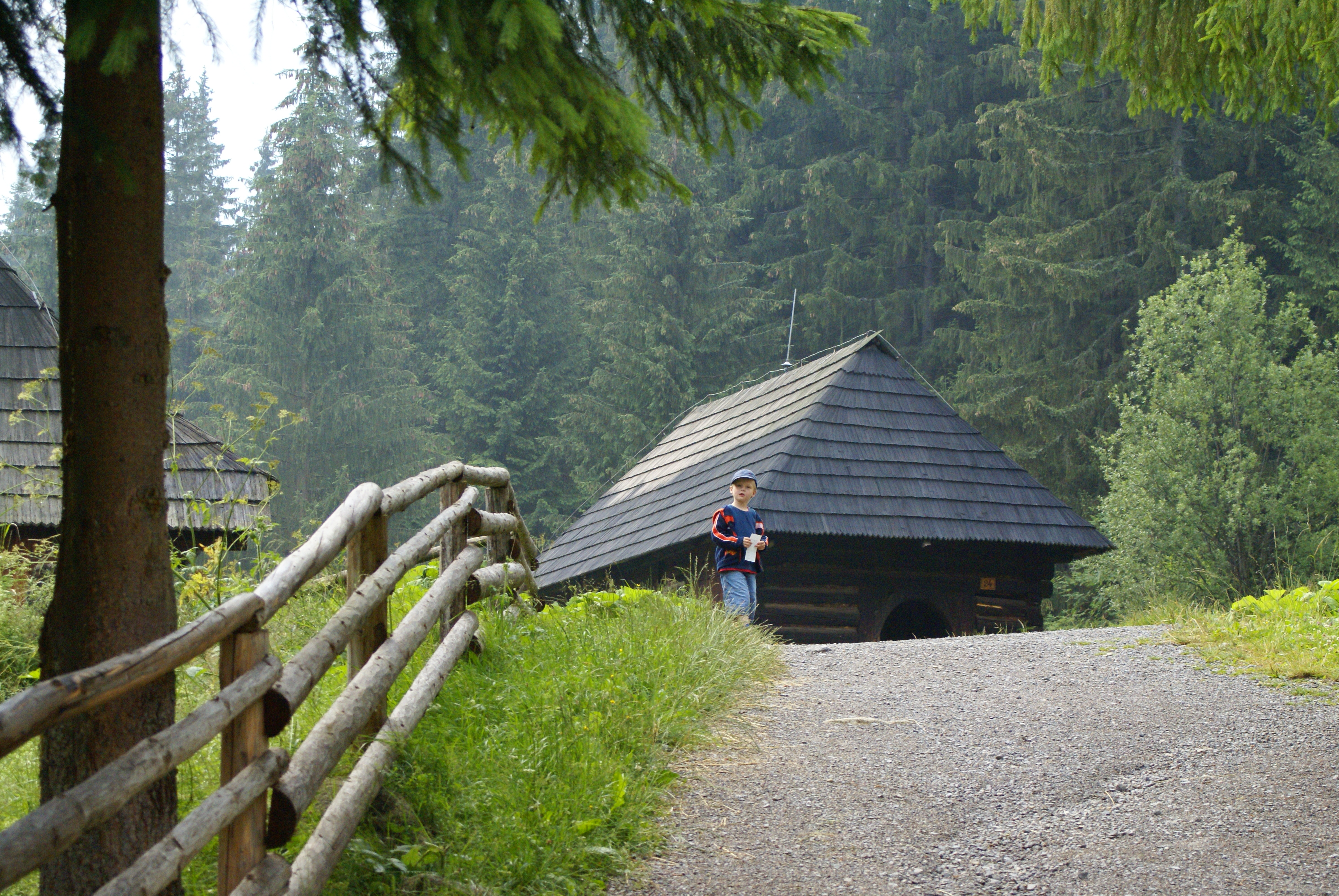 Open air museum of typical slovakian old Orava village, Zuberec, West Tatras, Slovak Republic